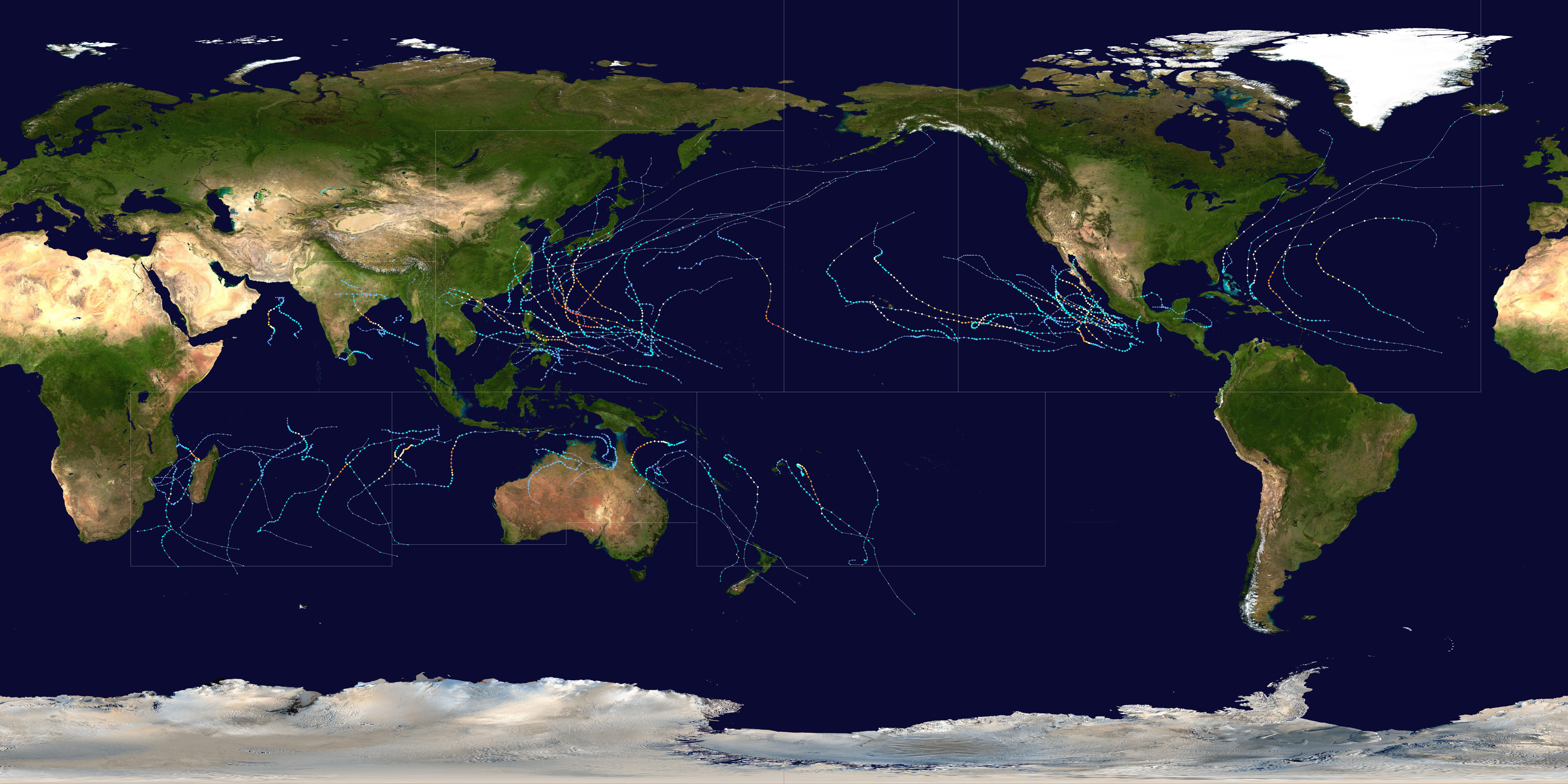 Tropical cyclones worldwide in 2014